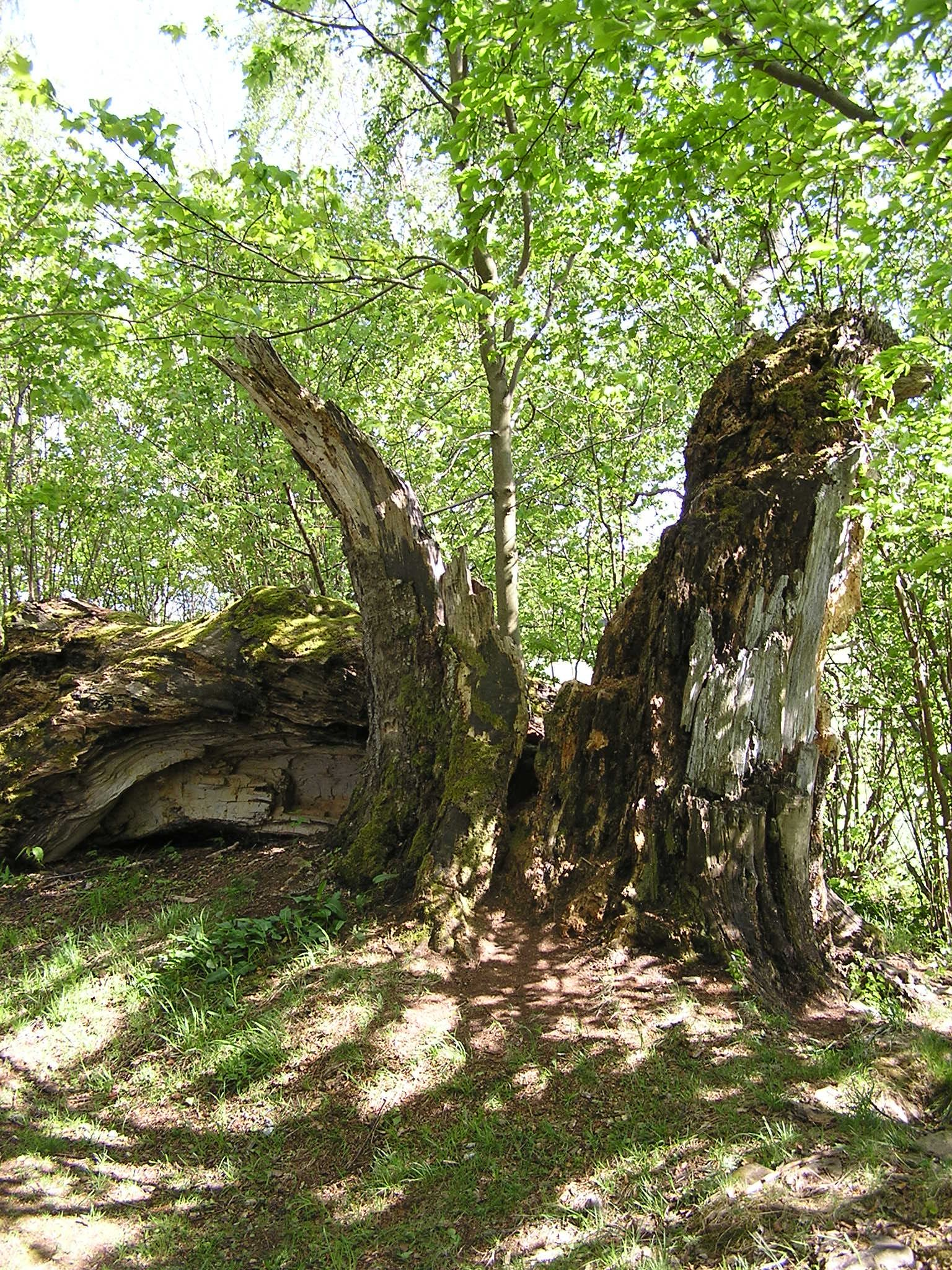 Remains of Stifter's Beech near Horní Planá, Český Krumlov District, South Bohemian Region, Czech Republic. The huge European Beech (Fagus sylvatica), aged about 300 years, was broken by a storm in 1979 and died ultimately in 1994. This particular tree is associated with life of writer Adalbert Stifter who liked to sit beneath it and mentioned the beech in his work Granite.